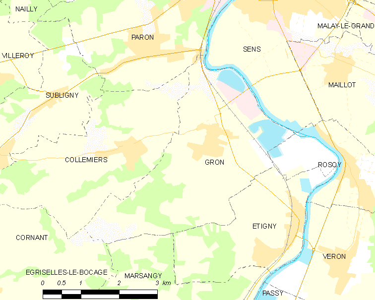 Map of French municipality Gron